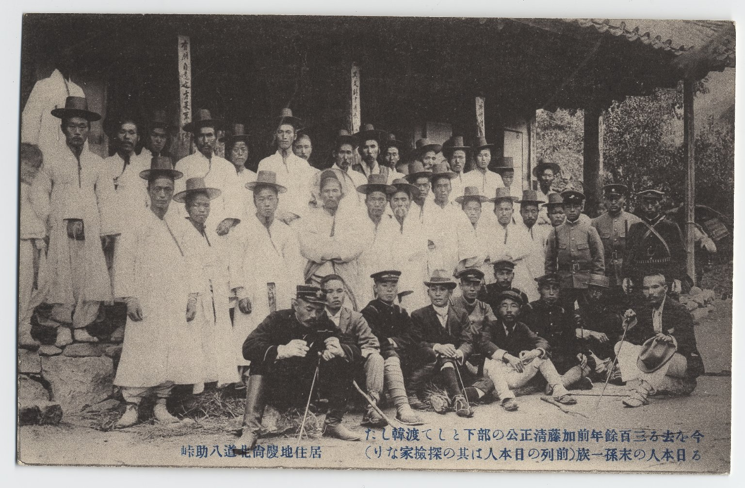 Collection: Willard Dickerman Straight and Early U.S.-Korea Diplomatic Relations, Cornell University Library Title: Families whose ancestors came to Korea with a Japanese Kato Kiyomasa Date: ca. 1904 Place: Asia: South Korea; Kyongsang-pukto Type: Postcards/Ephemera Description: This Japanese post card shows grandchildren and their families whose ancestors came to Korea as subordinates to a certain Japanese by the name of Kato Kiyomasa. The post card indicates that they lived and flourished in 'Kyongsang-pukto' (Kyongsang North Province). Those seated in the front are Japanese explorers. Inscription/Marks: Image imprinted with legend in Japanese characters. Pencilled inscription on verso: 'Policemen South Province.' Identifier: 1260.74.10.01 Persistent URI: There are no known U.S. copyright restrictions on this image. The digital file is owned by the Cornell University Library which is making it freely available with the request that, when possible, the Library be credited as its source. We had some help with the geocoding from Web Services by Yahoo!